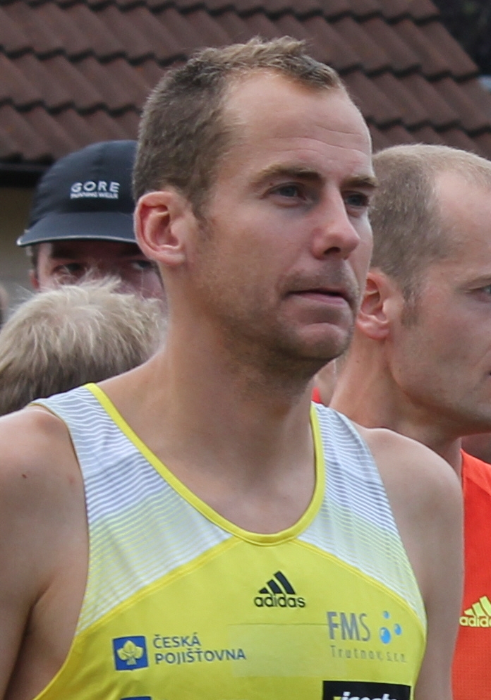 Jan Kreisinger 2013 in Schortens